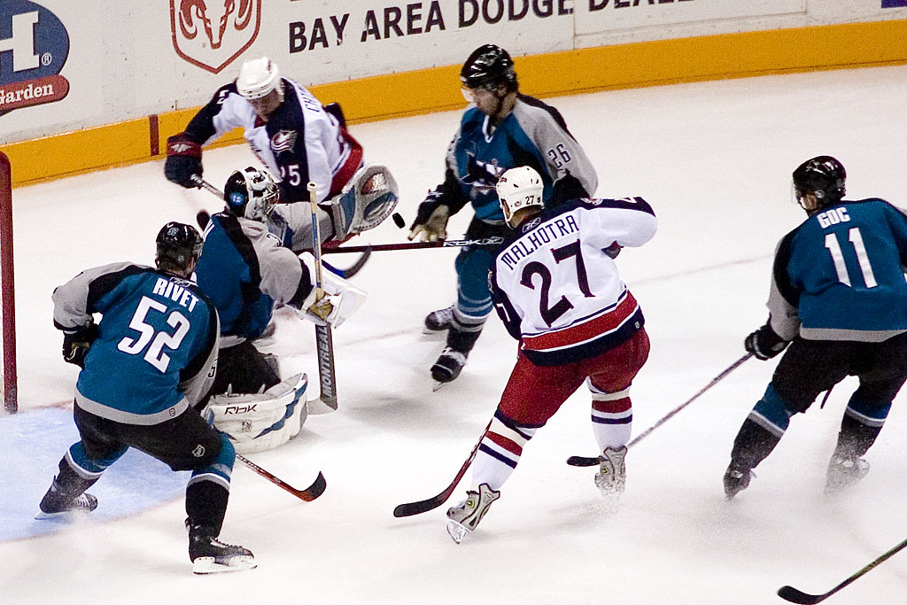 Columbus Blue Jackets vs. San Jose Sharks 3/16/2007